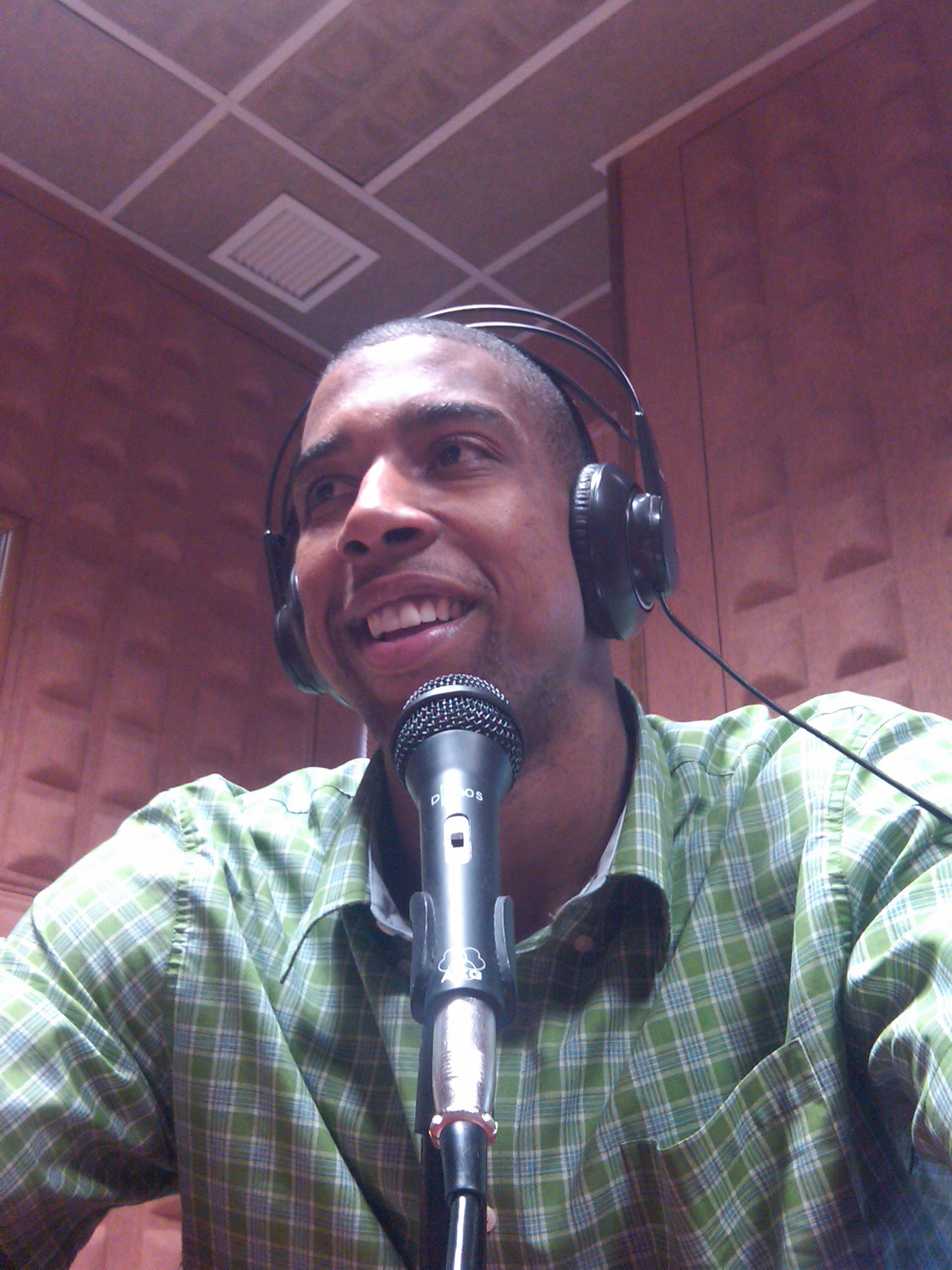 Richard Hendrix conducts an interview with a Spanish radio station in Granada, Spain.